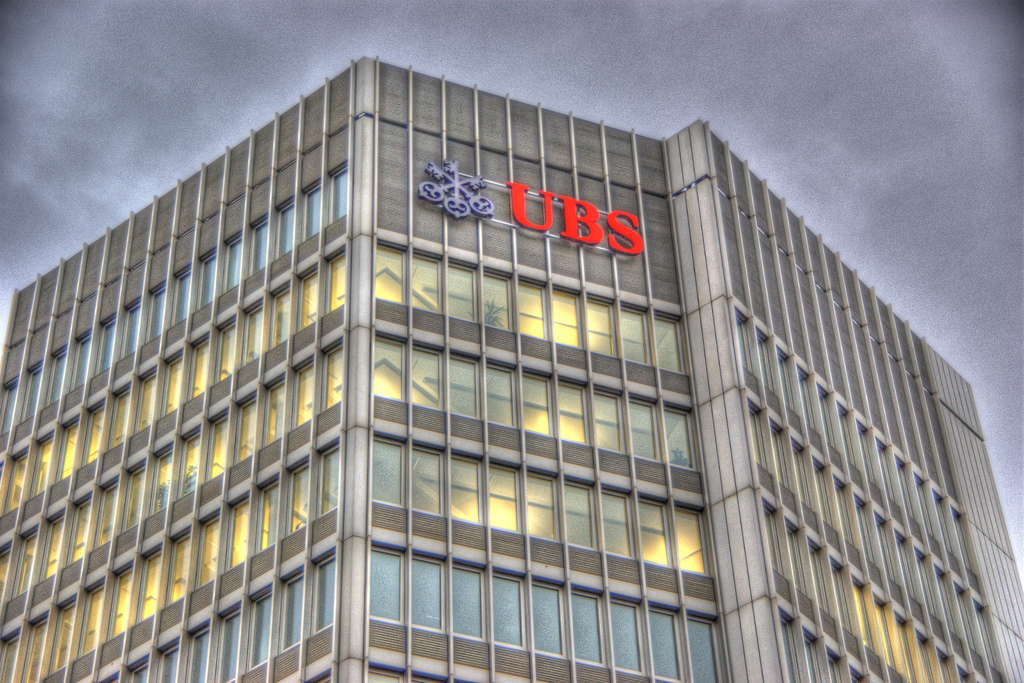 UBS offices in Zurich, Switzerland